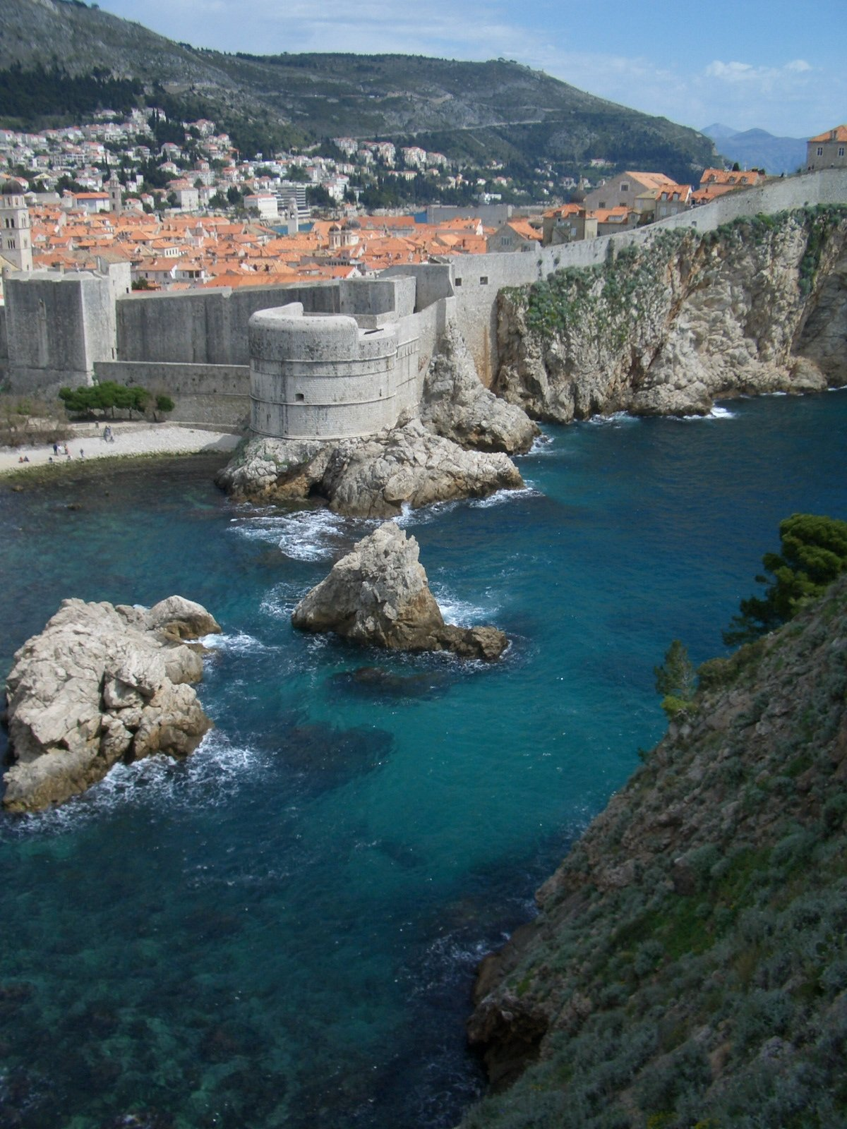 Dubrovnik with sea in close